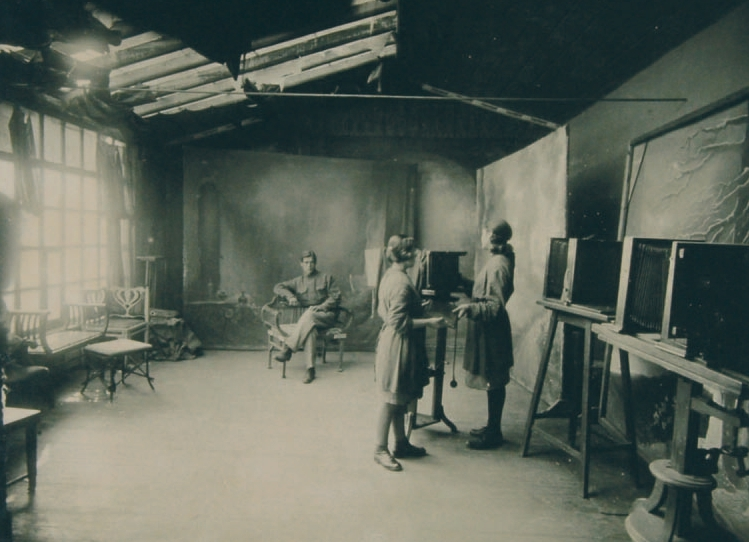 Lev Matusovsky’s photo studio. Early XX century.